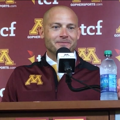 P. J. Fleck, head coach of the Minnesota Golden Gophers, at a press conference following a 2019 regular season game in the TCF Bank Stadium in Minneapolis.